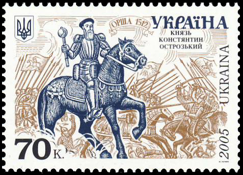 Postage stamp of Ukraine dedicated to the battle of Orsha and hetman Konstantin Ostrozhsky. 2005, 70 kop., Historic armed forces in Ukraine (Історія війська в Україні) series.